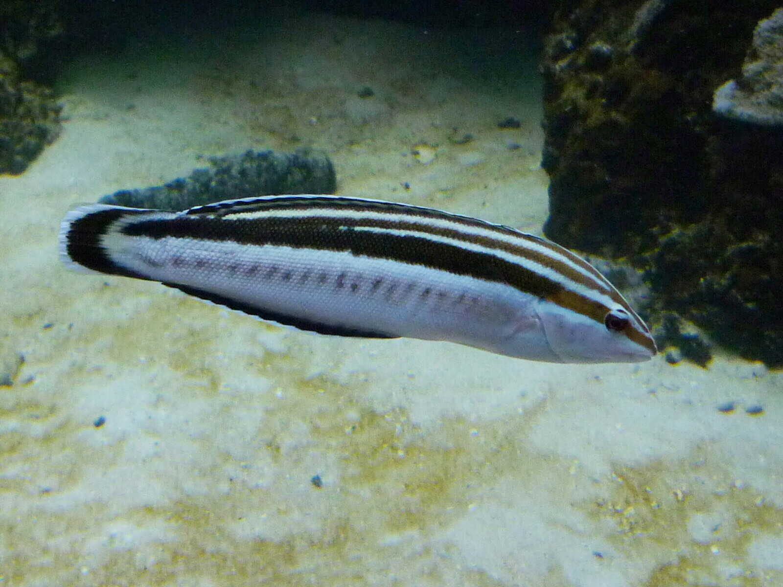 Blackstripe Coris (Coris flavovittota) in Waikiki Aquarium